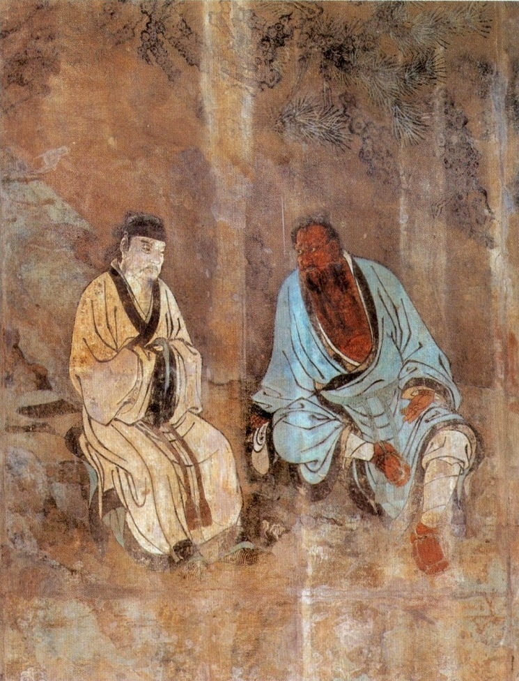 Zhu Haogu's atelier. Zhongli Quan Instructing Lu Dongbin. completed by 1358. Chunyangdian, Yonlegong, Shanxi Province